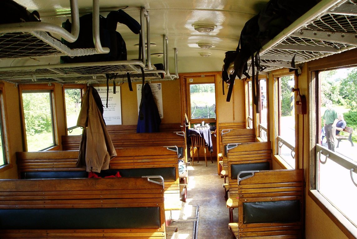 Space for passengers in M131.1